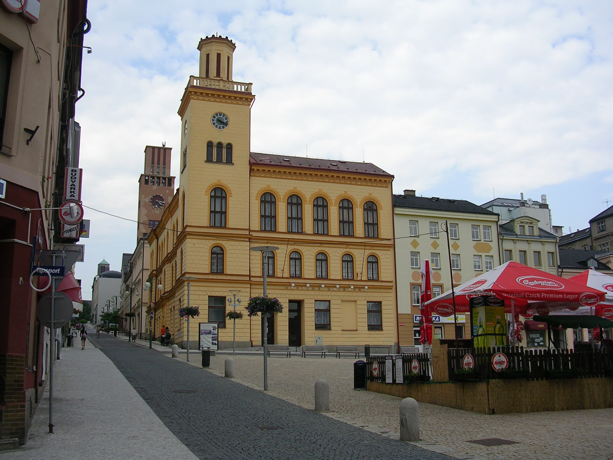 Jablonec nad Nisou. The Czech Republic. Town hall.